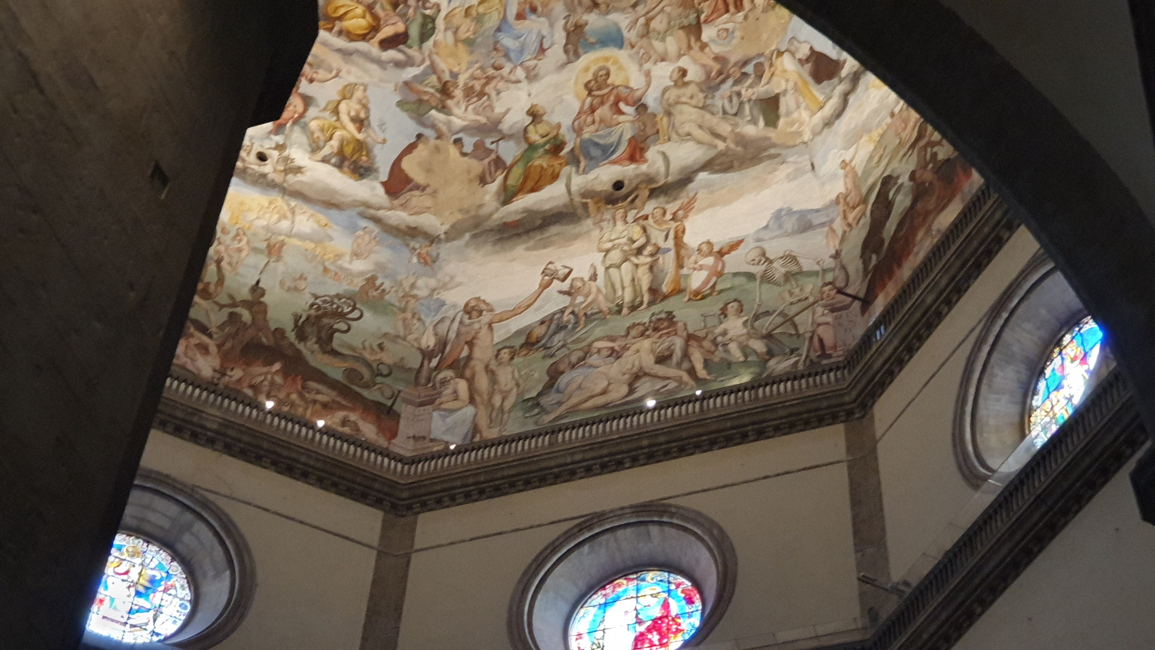 Santa Maria del Fiore (Florence) - Frescos inside the dome by Giorgio Vasari